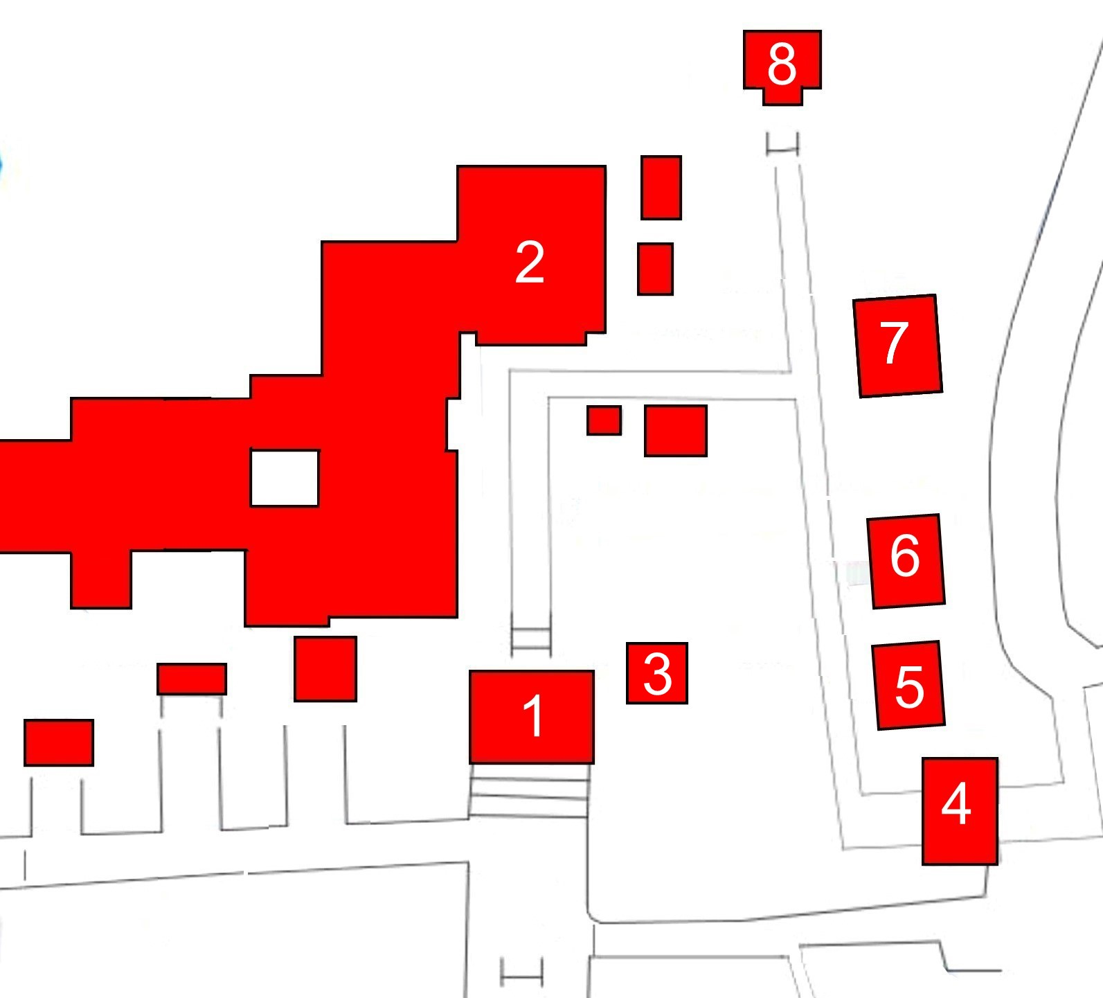 Layout of Yajina-ji